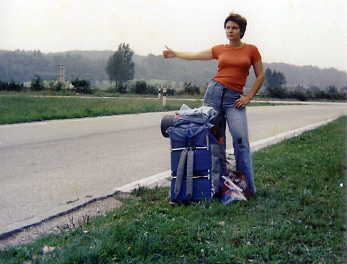 A hitchhiker in Luxemburg on 18 or 19 Aug 1977 (then 18 years old). Picture taken and uploaded by Roger McLassus with explicit consent of the person shown.